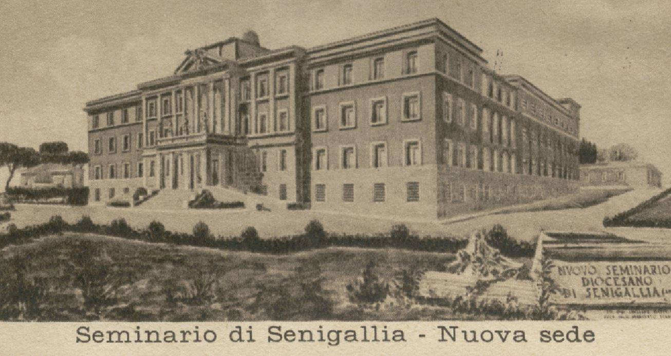 This is an ancient photo of the new seat of the episcopal Seminary in Senigallia